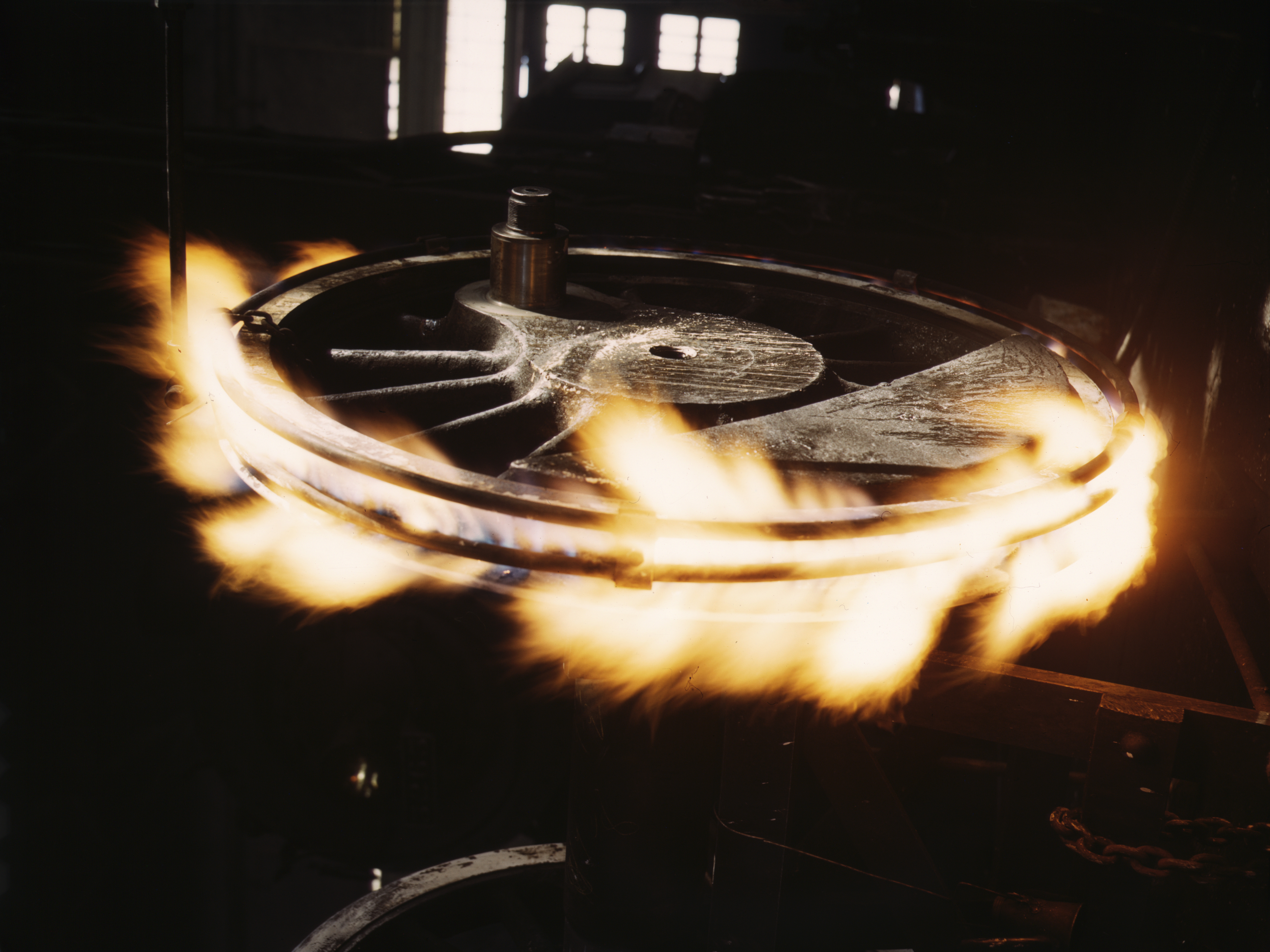 Retiring a locomotive driver wheel in the Atchison, Topeka, and Santa Fe railway locomotive shops, Shopton, near Fort Madison, Iowa. The tire is heated by means of gas until it can be slipped over the wheel. Contraction on cooling will hold it firmly in place. Santa Fe R.R.